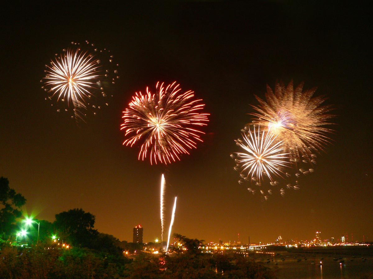 South Shore Water Frolics is a free three day summer festival held annually at South Shore Park in Milwaukee, Wisconsin. The event is best known for its Atomic Fireworks.